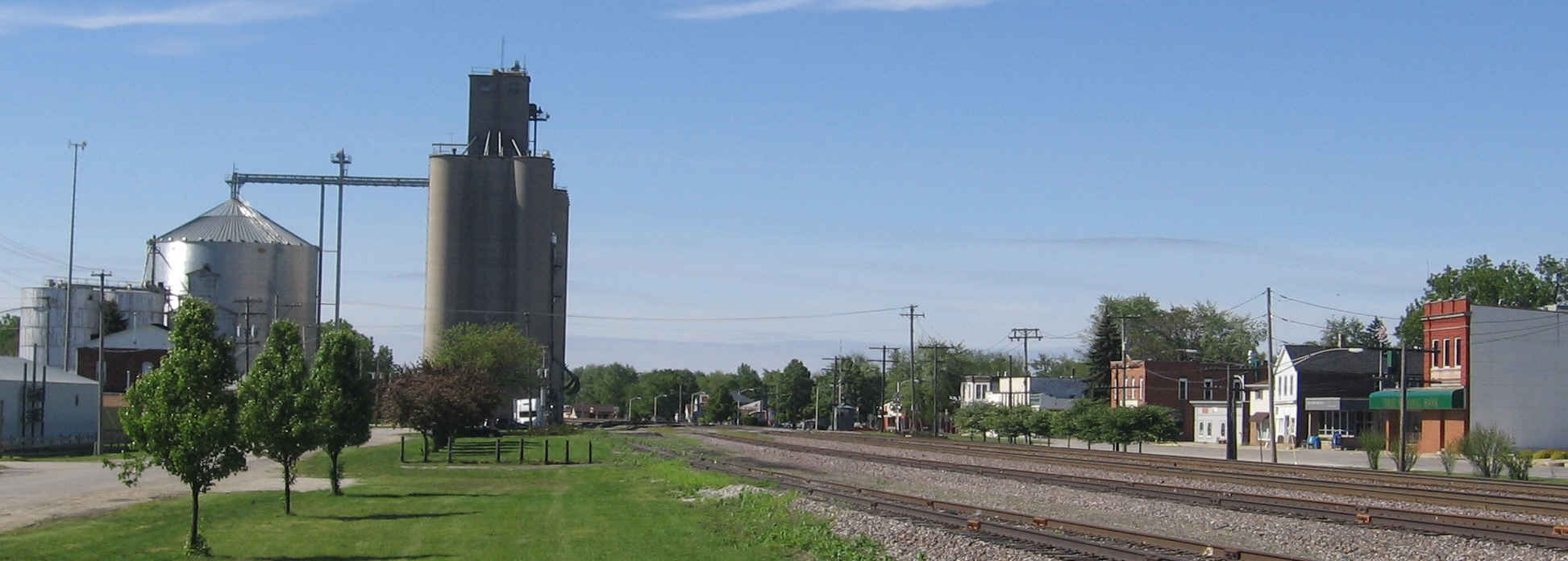 Grant Park, Illinois - village central